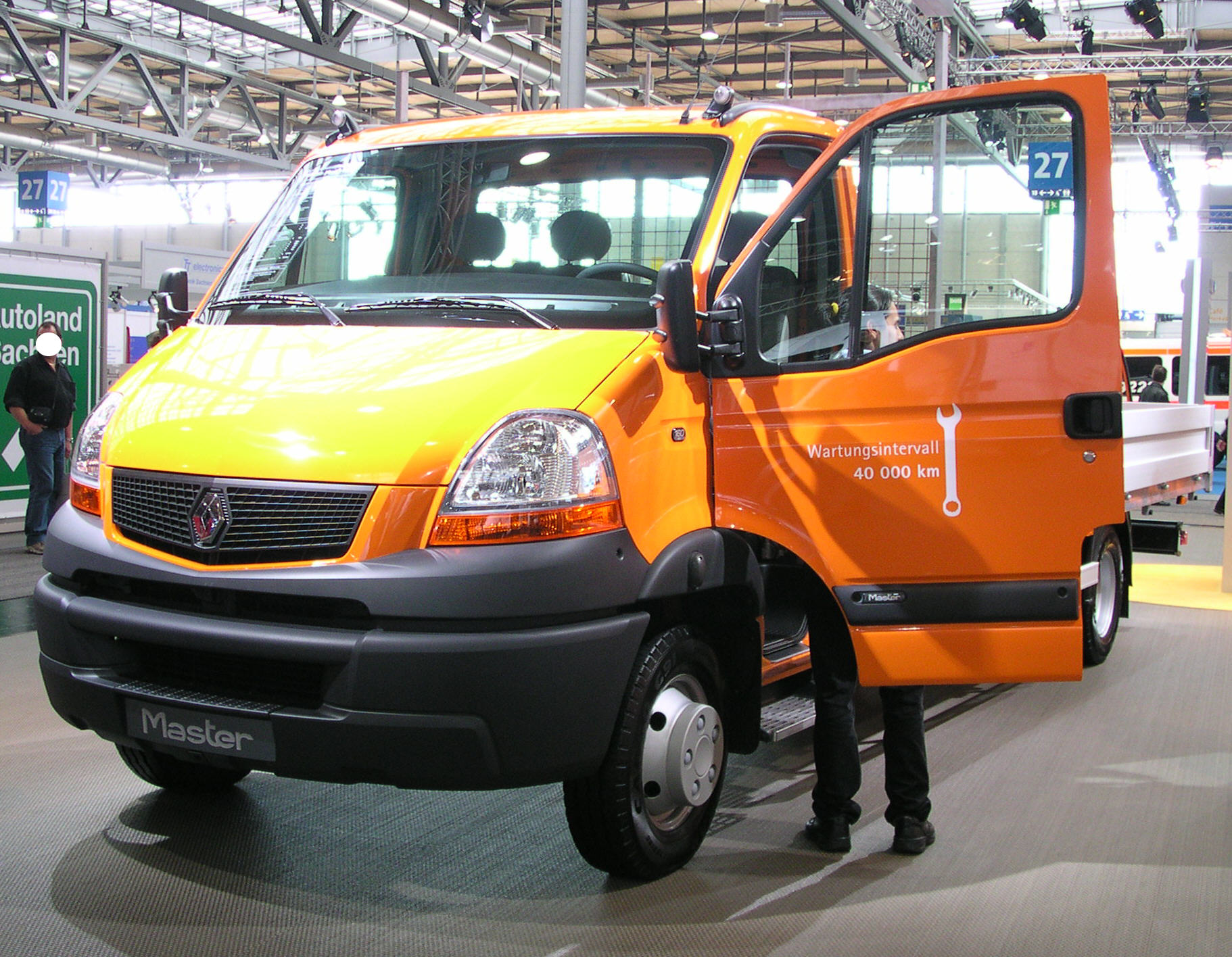 Renault Mascott in sale like Renault Master (or Renault Master Maxi). IAA Hannover 2004.